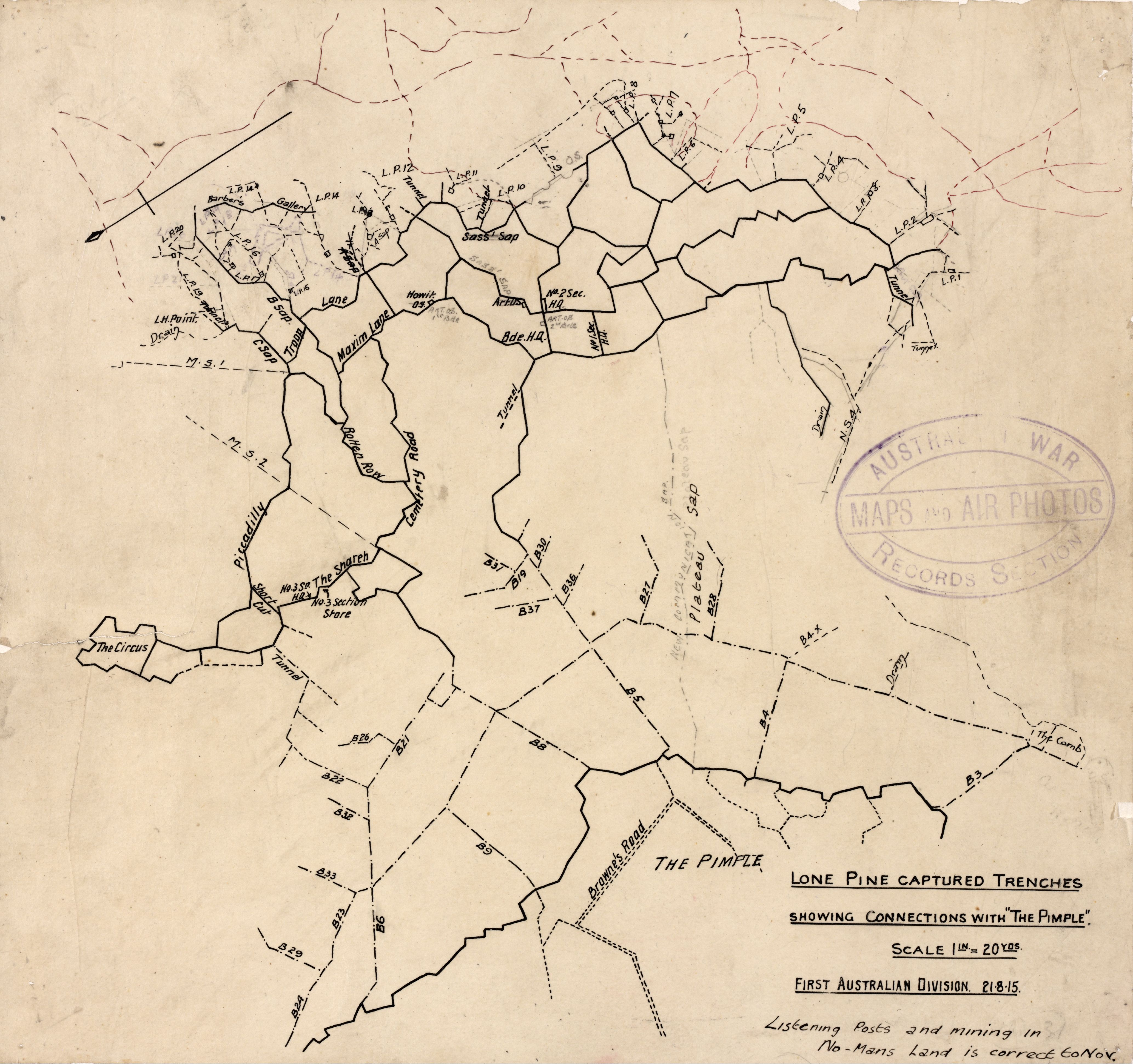 This plan shows the trenches at Lone Pine in late August 1915 and their connection to the position known as “the Pimple”. This copy of the plan has the Australian trenches drawn in black ink. Annotations have been done in pencil, including new trenches and communication saps, along with general corrections. The features drawn in black ink are correct to November 1915. However, the pencilled amendments and corrections may be from a later date. The plan was drawn by Sapper John Stevenson. Stevenson arrived on Gallipoli on 22 June 1915 as part of the 3rd Field Company Engineers. On his second day at ANZAC he felt sick and was evacuated to Egypt with a pain in his left lung and a high temperature. After four weeks recuperating, he returned to ANZAC on 25 July.